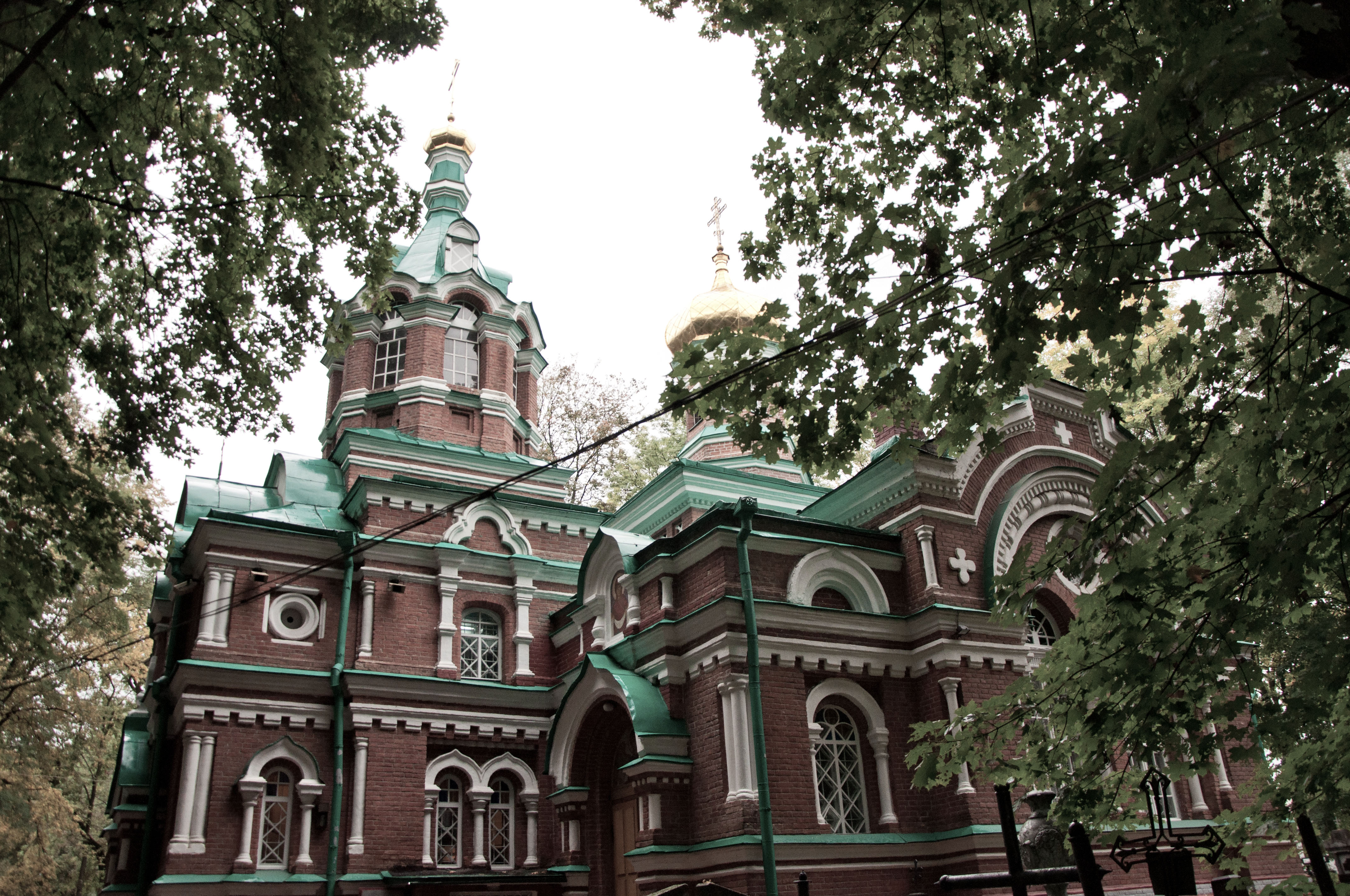 Church of Saint Alexander Nevsky (built in 1898), Minsk, Belarus This is a photo of Belarusian heritage monument. Reference number: 712Г000046 ( WLM)